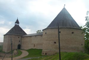 Staraja Ladoga: Fortress (Staroladozhskaja krepost).